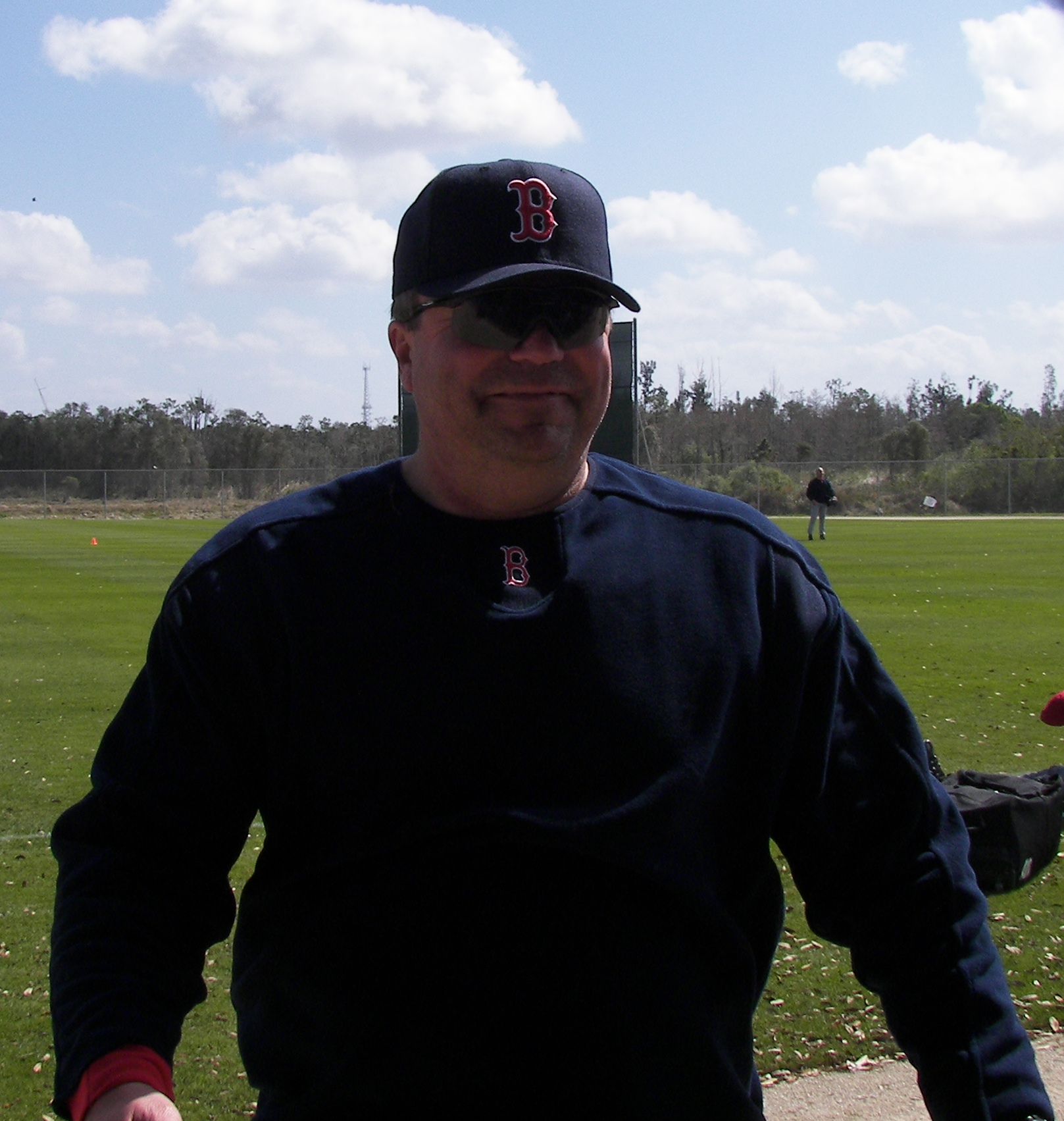 Boston Red Sox bullpen coach Gary Tuck at the Red Sox' minor league complex in Fort Myers, Florida during pitching/catching workouts.